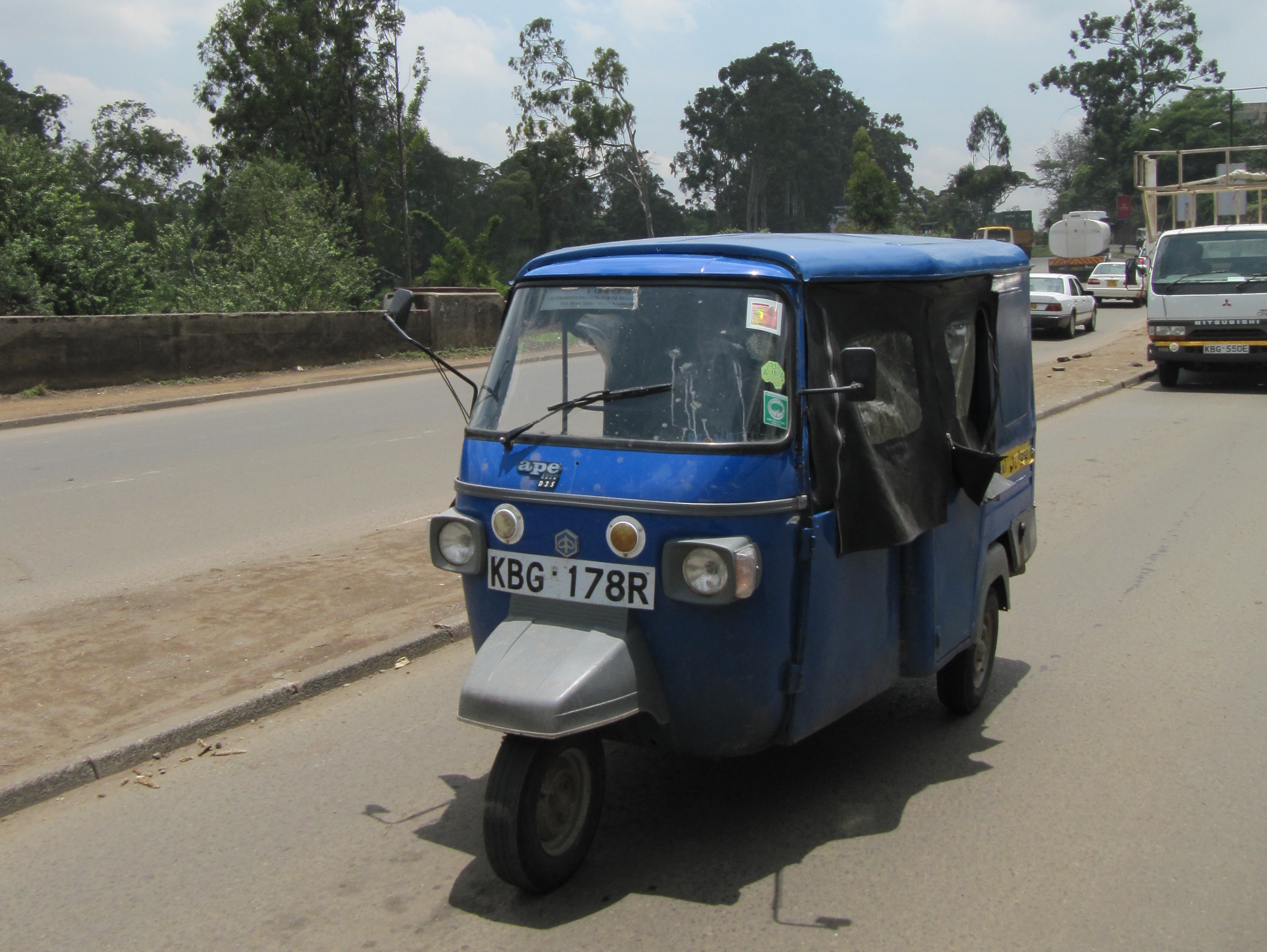 Tuk-tuk on the street of Nairobi, Kenya